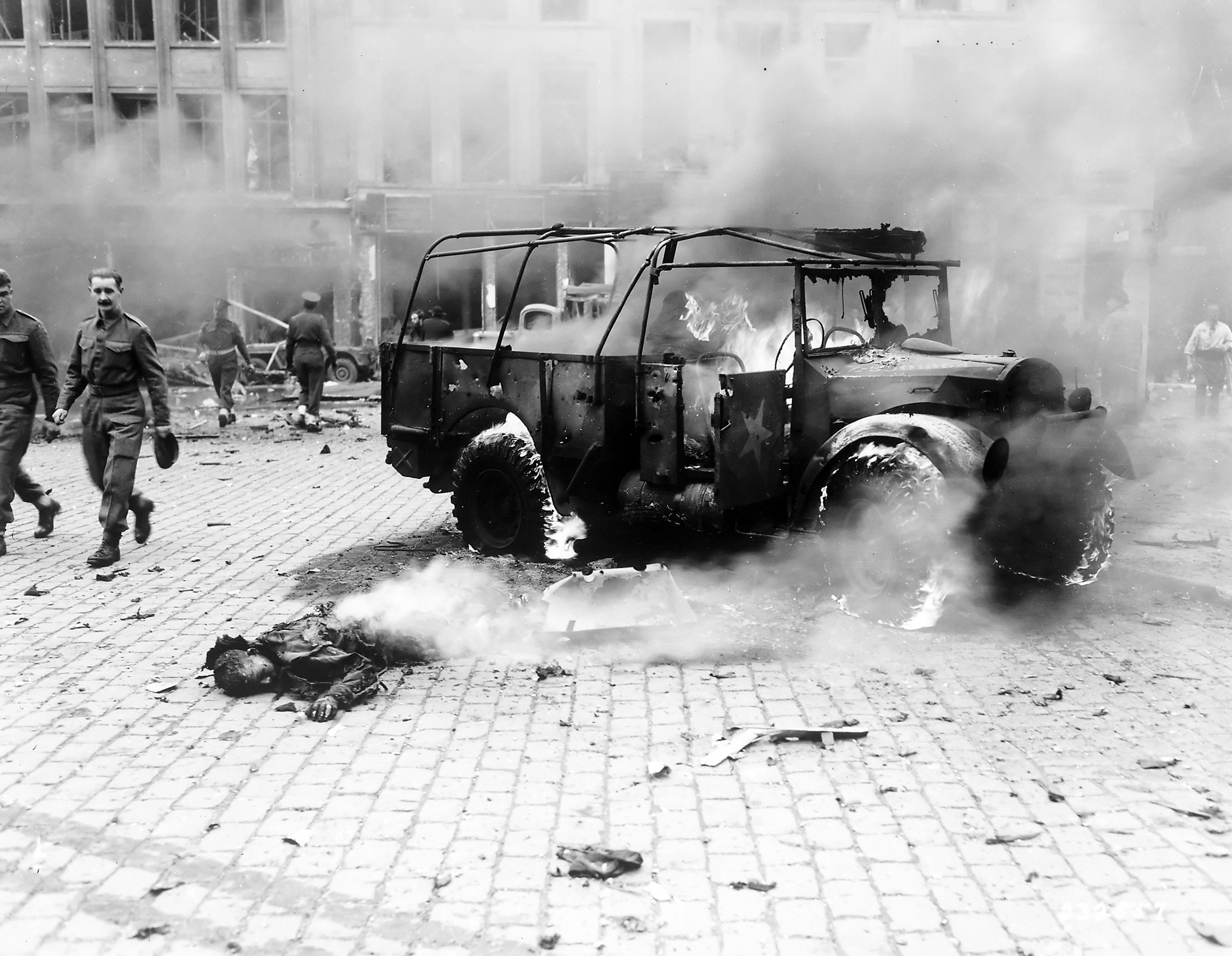 This boy's dead, burning body shows damage done by a V-2 on a main intersection in Antwerp, on a main supply line to Holland.